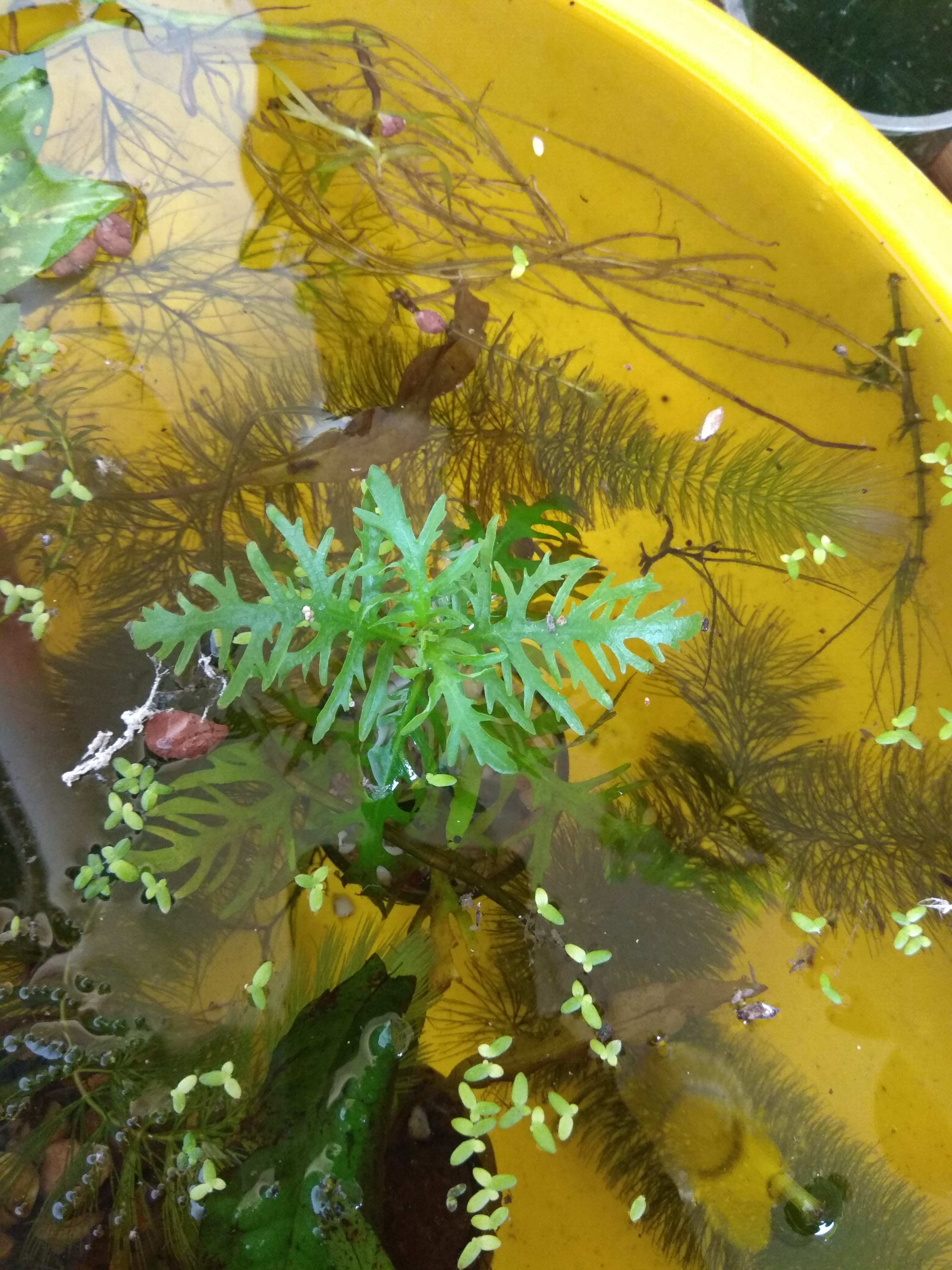 Water wisteria or Hydrophila diffiformis shows Hetrophylly which is occurance of two different leaf morphology in a same plant. A special case of plasticity is represented by heterophylly, the ability of semi-aquatic plants to produce different types of leaves below and above water. Submerged leaves are thin and lack both a cuticle and stomata, whereas aerial leaves are thicker, cutinized and bear stomata.